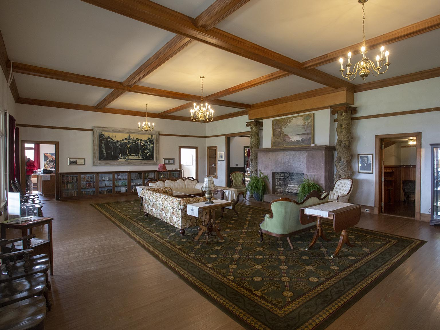 Shows the parlor in Covenhoven.